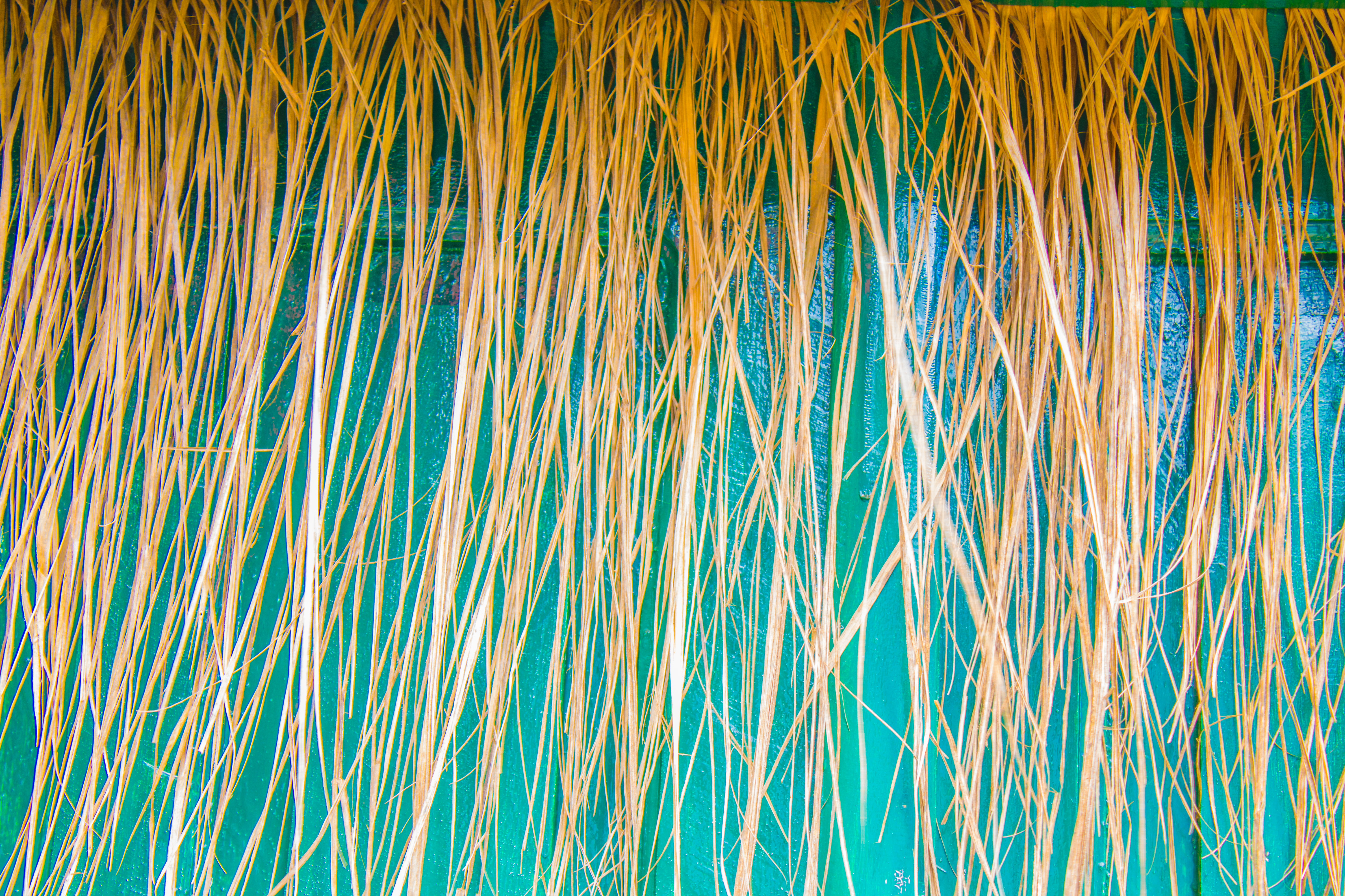 Terreiro do Caboclo Guarani do Oxóssi, Cachoeira, Bahia, Brazil.